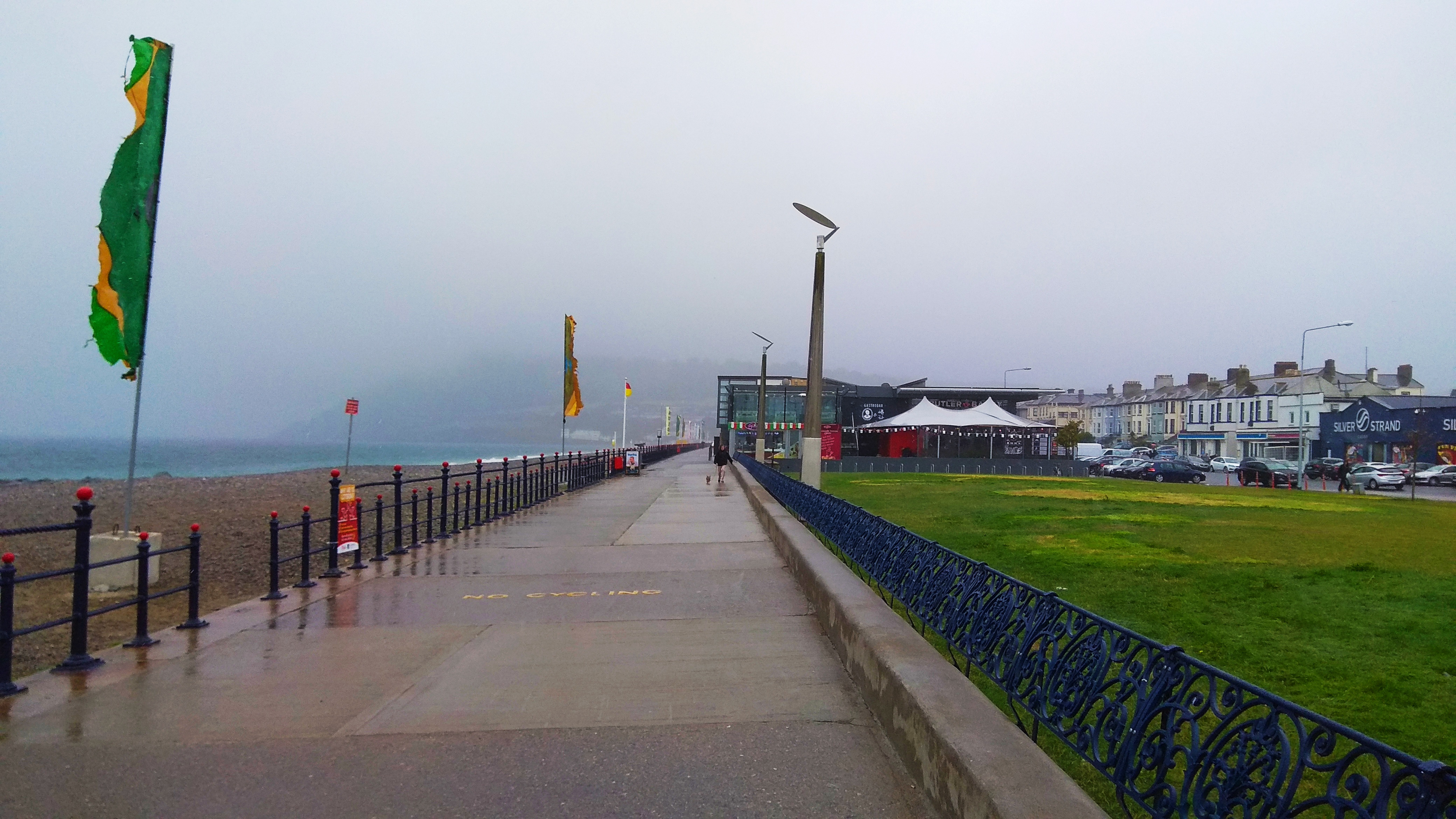 Bray, Sea Front